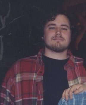 Bill Oakley in 1994. cropped version of Image:Simpsons writers1.jpg